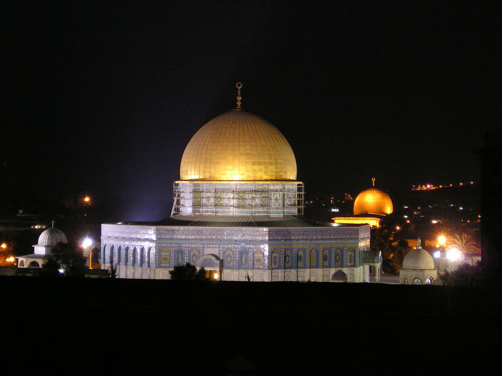 The Dome of the Rock (Arabic: قبة الصخرة Qubbat As-Sakhrah) is a famous Islamic shrine in Jerusalem.